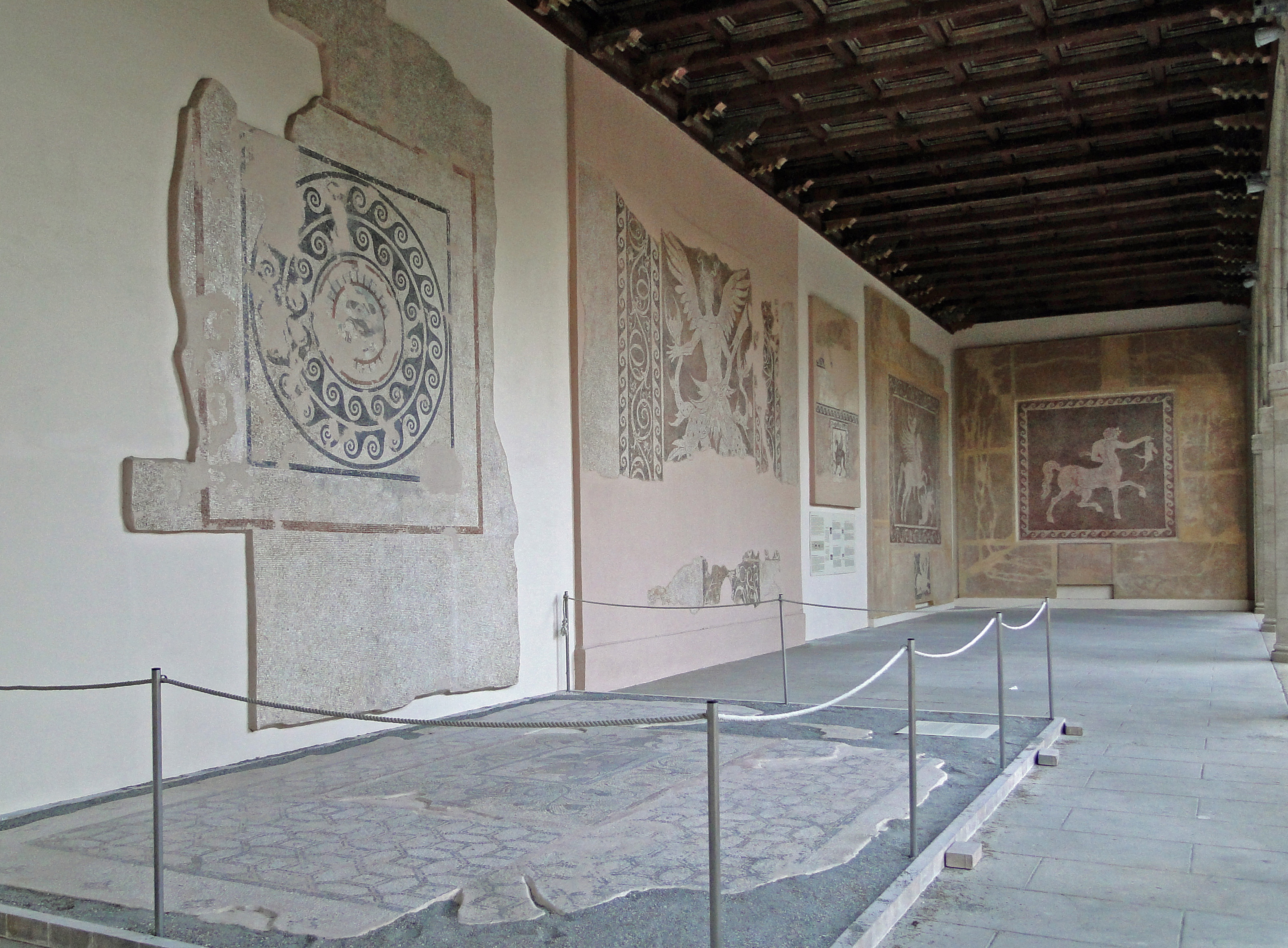 Mosaics in the Archaeological Museum of Rhodes, Greece